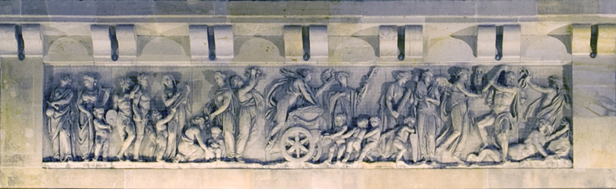 The Entry of the Goddess of Peace, bas relief on the eastern side of the attica of the Brandenburg Gate. Design by Bernhard Rode. In the middle, the goddess of Peace, with an olive branch and laurel wreath in her hands, rides on a triumphal chariot drawn by four geniuses pulling on a garland of woven laurel. Before the chariot proceed Harmony, Friendship, Statesmanship, the goddess of Victory, and Valor, before whom Discord flees. The chariot is followed by Joy, dancing and with a rose belt in her hands, the goddess of Abundance, from whose cornucopia fruit falls and is gathered up, Architecture, Painting, Sculpture and the goddess of Higher Learning alongside Music and Poetry with the symbols of discernment in her hands.